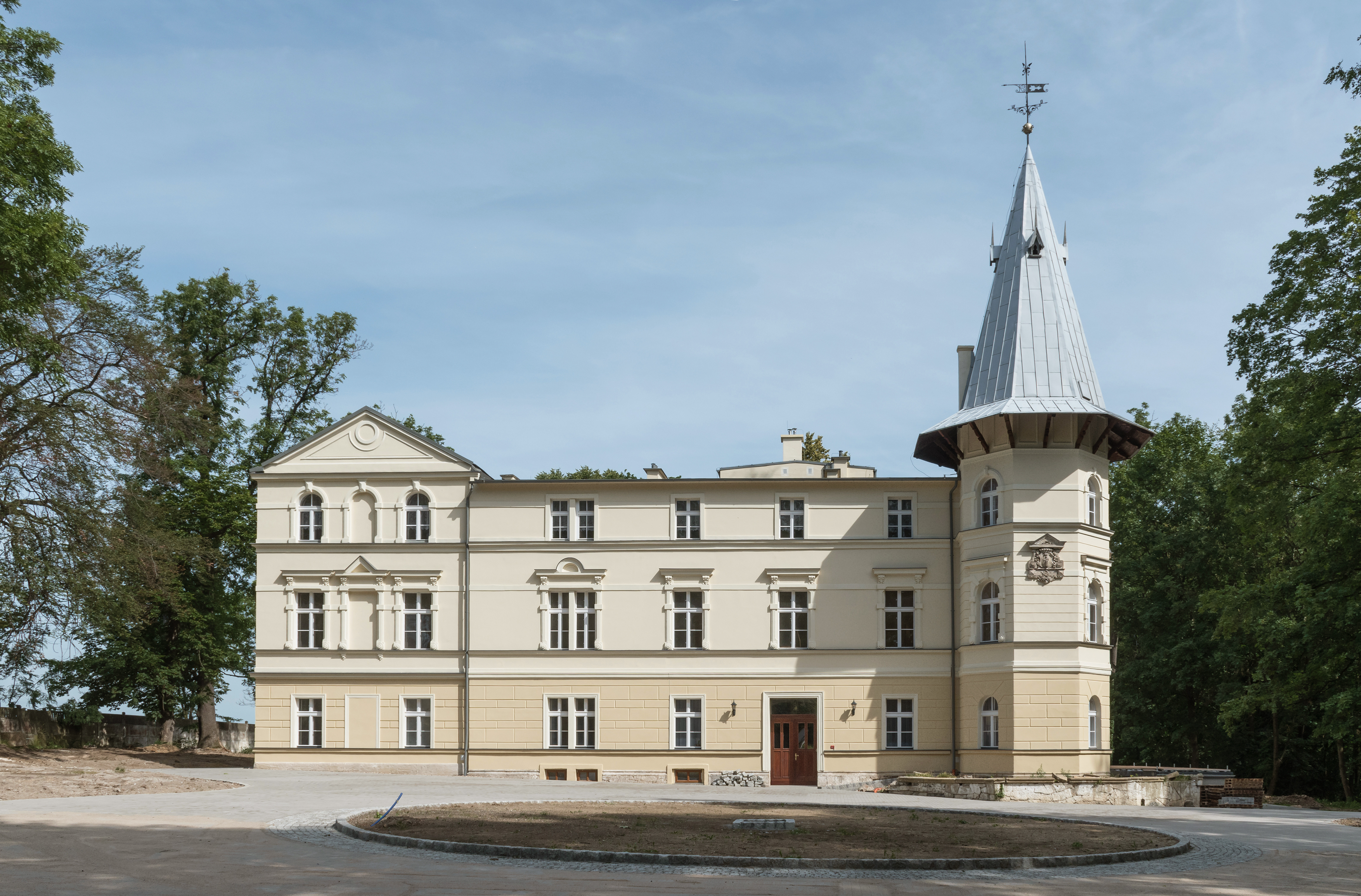 Manor in Żelazno Ta fotografia przedstawia zabytek wpisany do rejestru zabytków pod numerem ID 592672